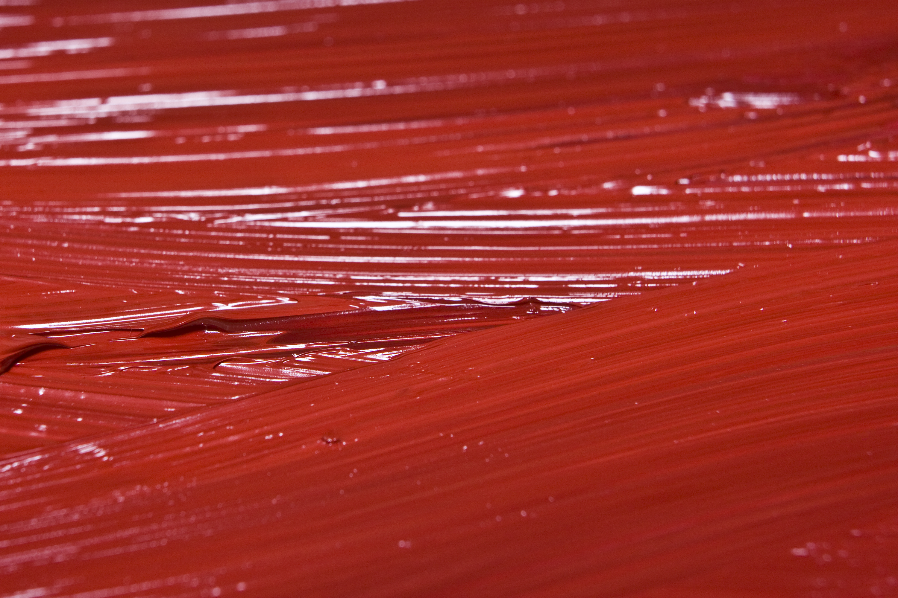 Oil color (Cadmium Red Medium and Pyrrol Crimson)